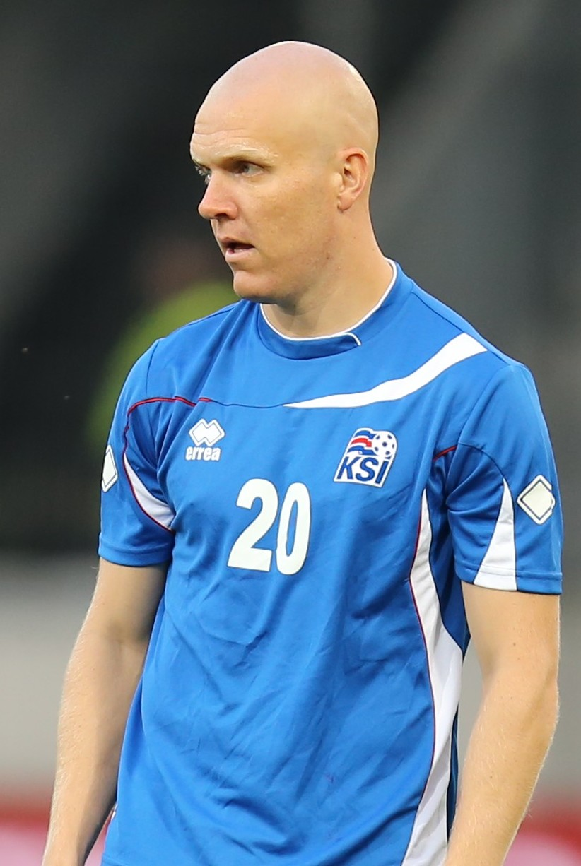 Austria - Iceland football match in Innsbruck, Austria on 2014-05-30. Austria in red, Iceland in blue.